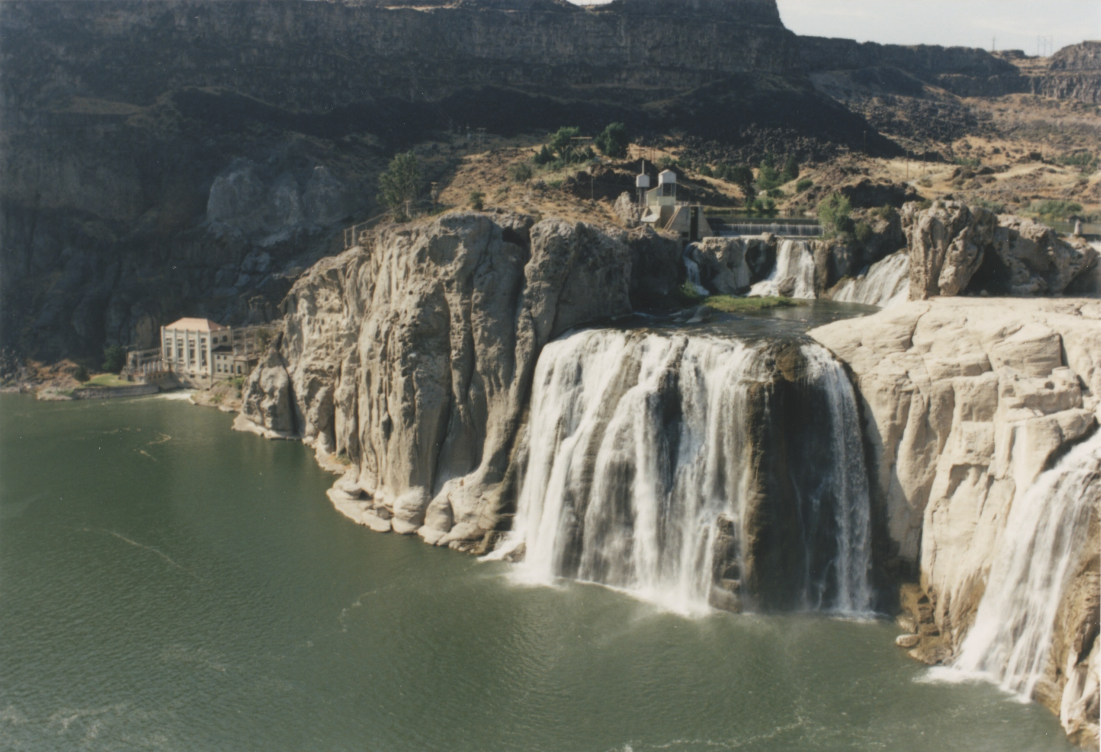 Shoshone Falls, July 8, 1989